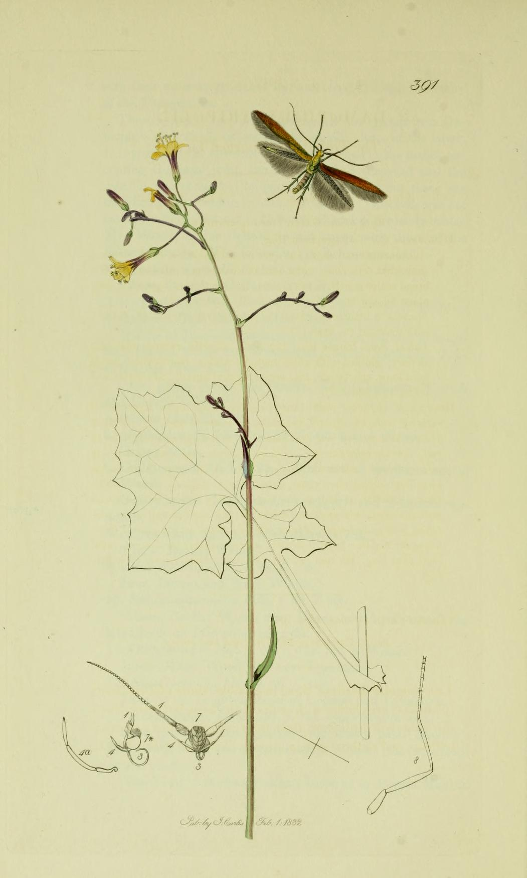 An illustration from British Entomology by John Curtis. Lepidoptera: Damophila trifolii or Coleophora trifolii (Trefoil Thick-horned Tinea).